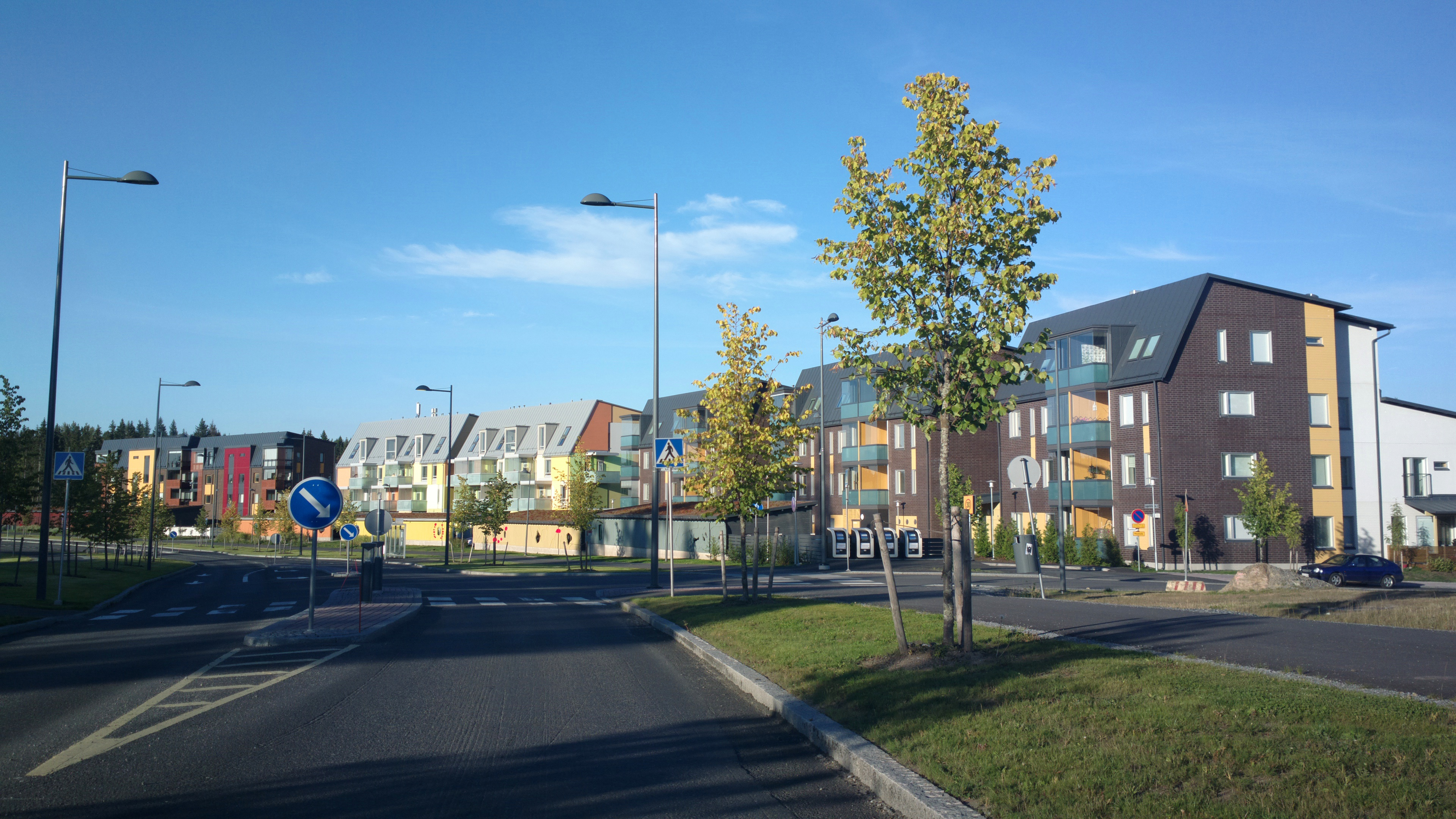 Vuores suburb in Tampere. Vuoreksen Puistokatu